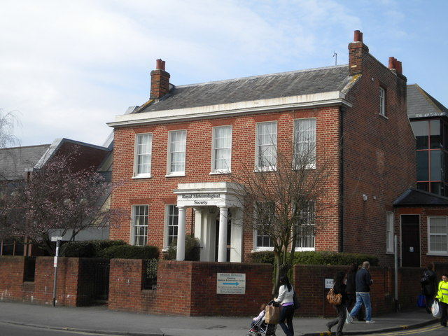 Royal Meteorological Society, Oxford Road, Reading At the junction with Eaton Place, Reading